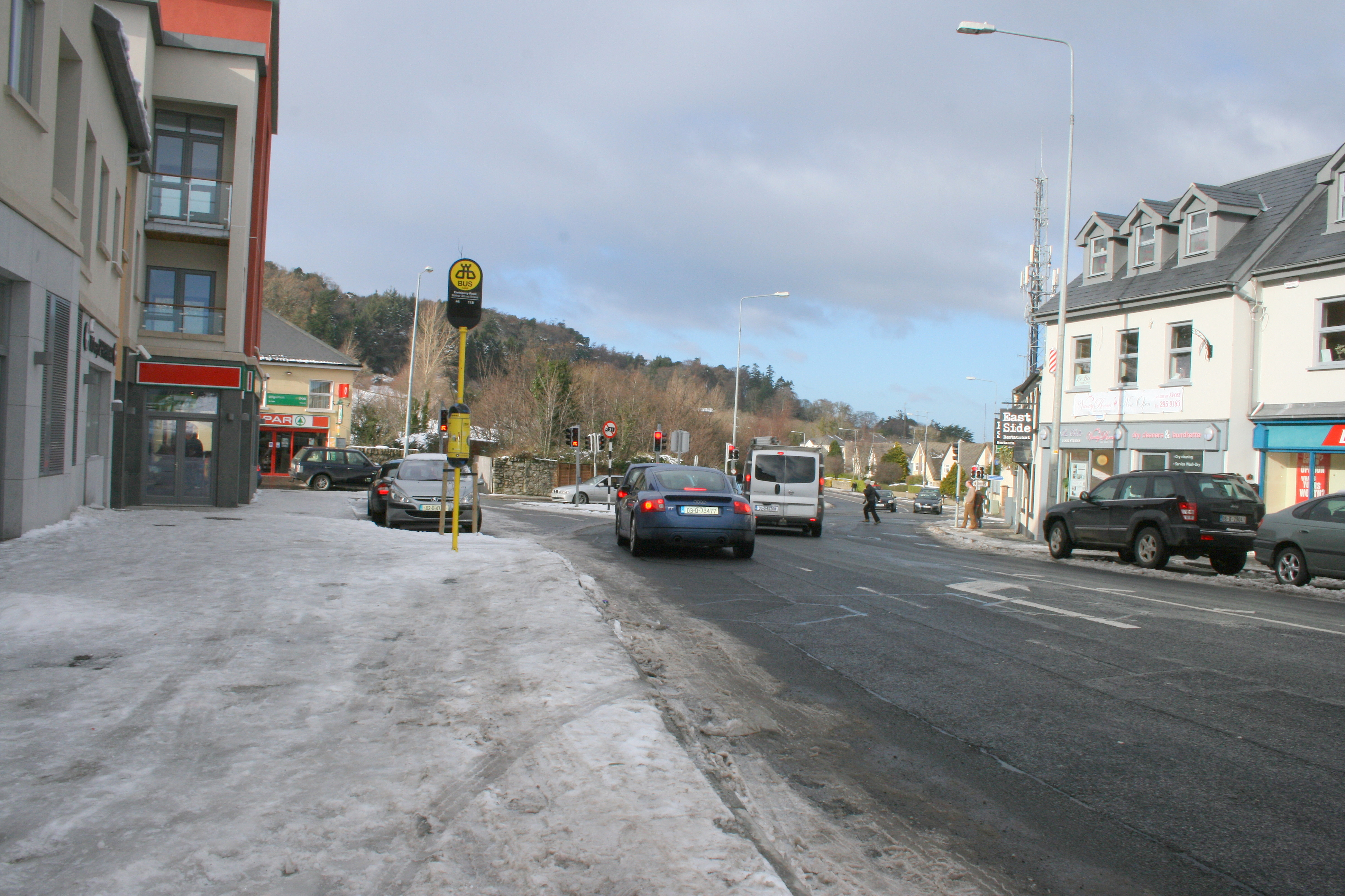 Stepaside, County Dublin, Ireland